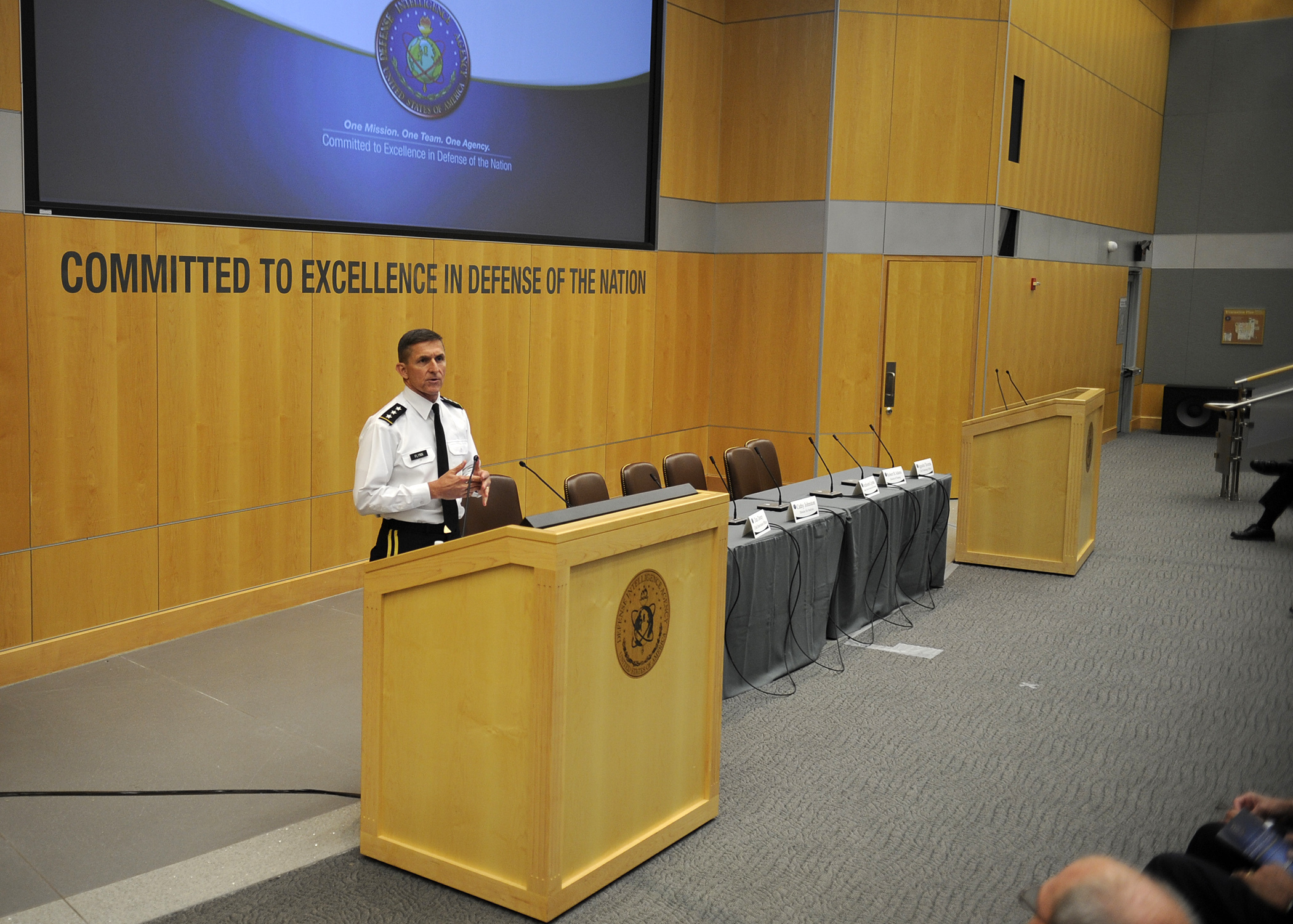 Defense Intelligence Agency Director Lt. Gen. Michael T. Flynn gives his opening remarks during DIA’s second annual DIA Innovation Symposium at DIA Headquarters in Washington, D.C. The DIA Innovation Symposium is an opportunity for DIA’s industry partners to hear presentations from and interact with DIA senior leadership about current challenges and efforts to maximize agility in a rapidly changing global landscape.